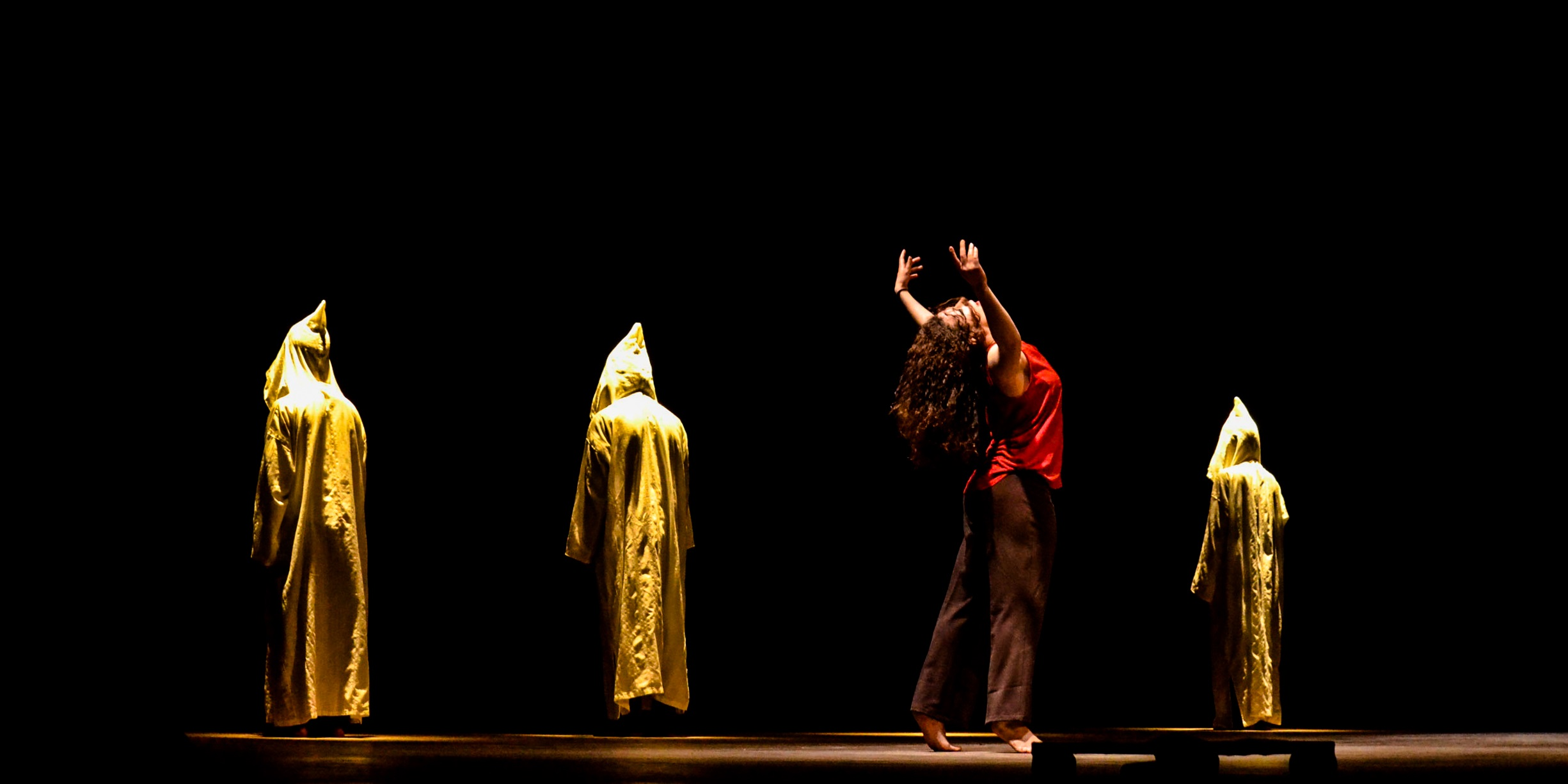 This is an image with the theme "Play" from: Morocco